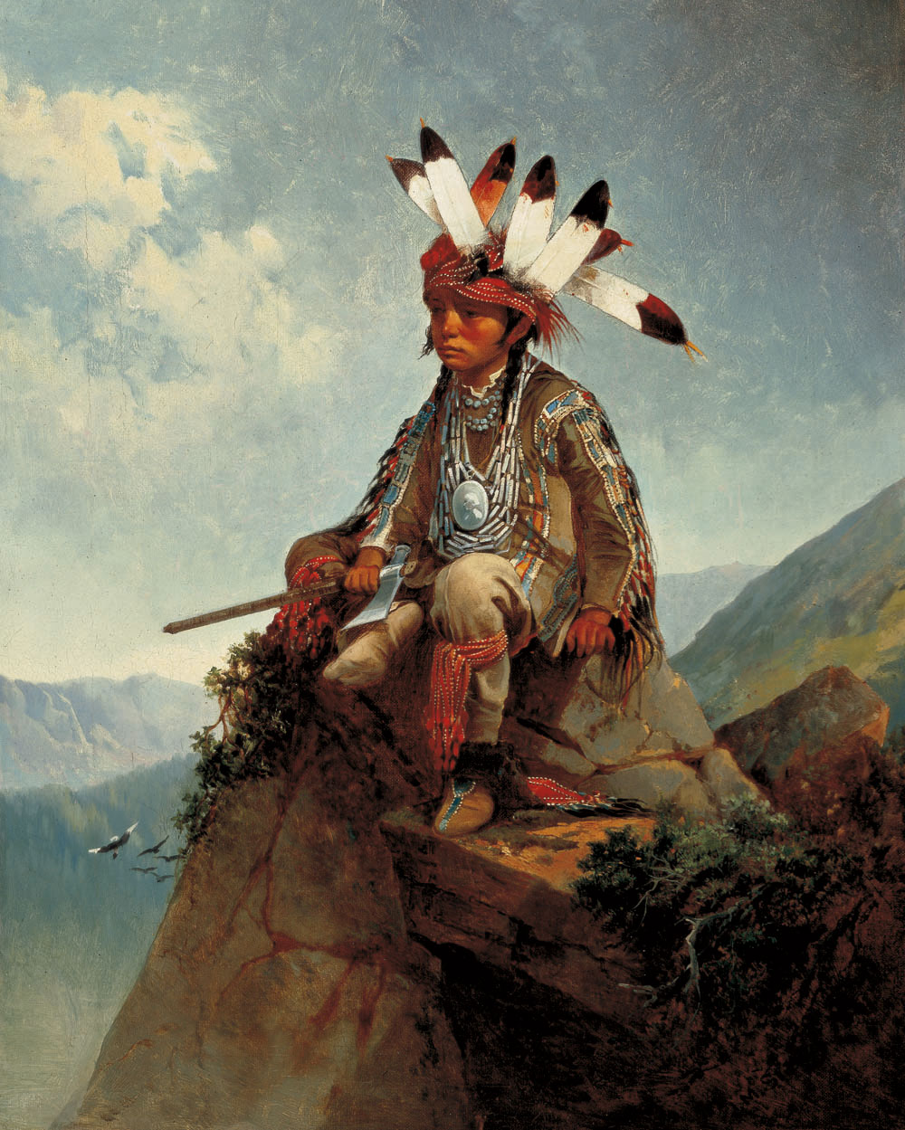 Young Chief by John Mix Stanley, 1868, oil on canvas, 20 x 16 in. (50.8 x 40.6 cm), Tacoma Art Museum